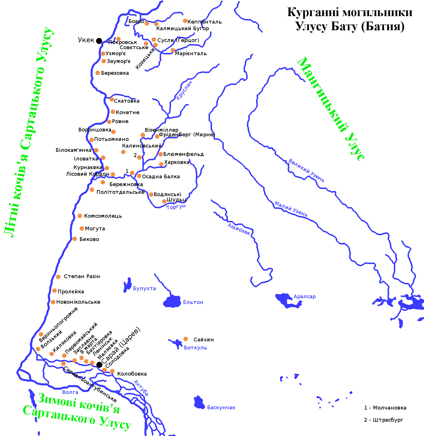 Kurgans of Ulus of Batu Khan